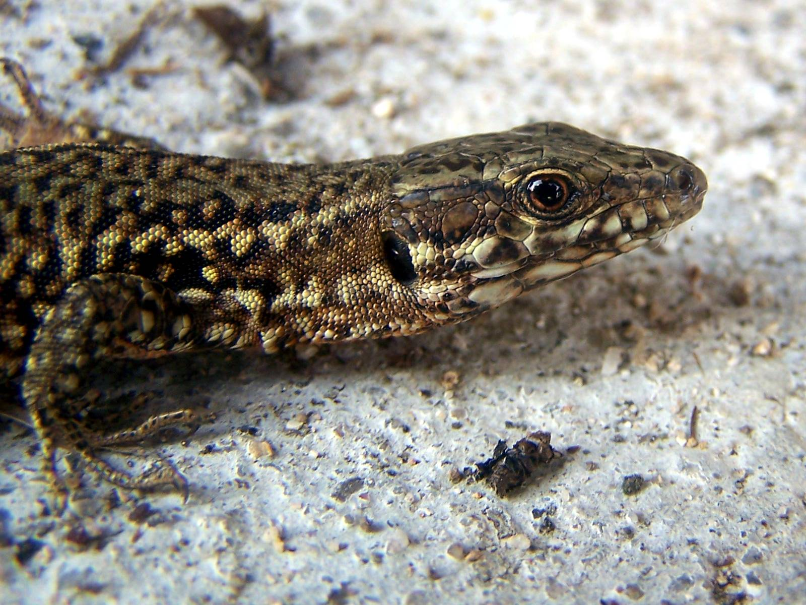 Closeup of a lizard's head.